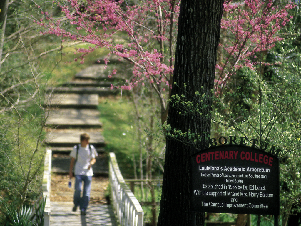 The Dr. Ed Leuck Academic Arboretum, located in the heart of campus, is home to more than 300 species of plant life.